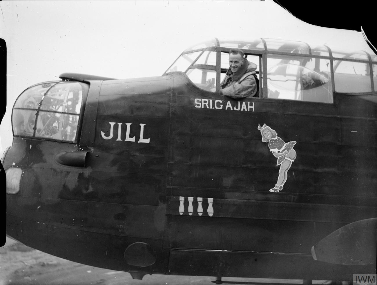 IWM caption : Flight Lieutenant R A Fletcher in the cockpit of Avro Manchester Mark IA, 'OF-P' "Sri Gajah" "Jill", of No. 97 Squadron, at RAF Coningsby, Lincolnshire.